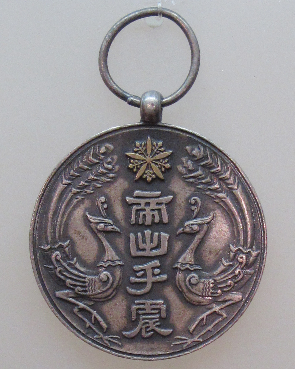 Manchukuo Emperor (Pu Yi) Enthronement Commemorative Medal. Established in 1934. The exhibition of the Jilin Provincial Museum.